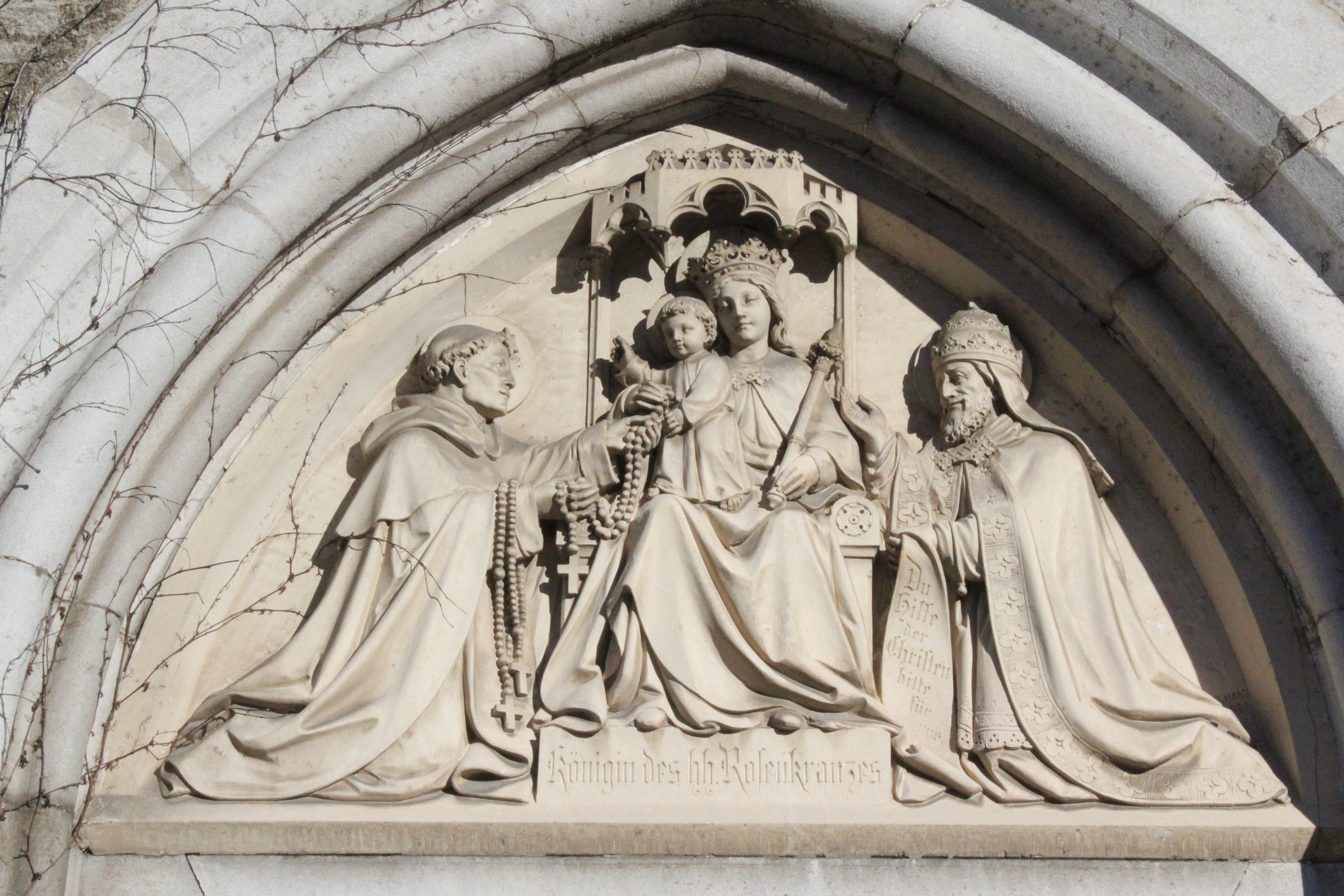 Dominican-Order-church in Friesach: Tympanum